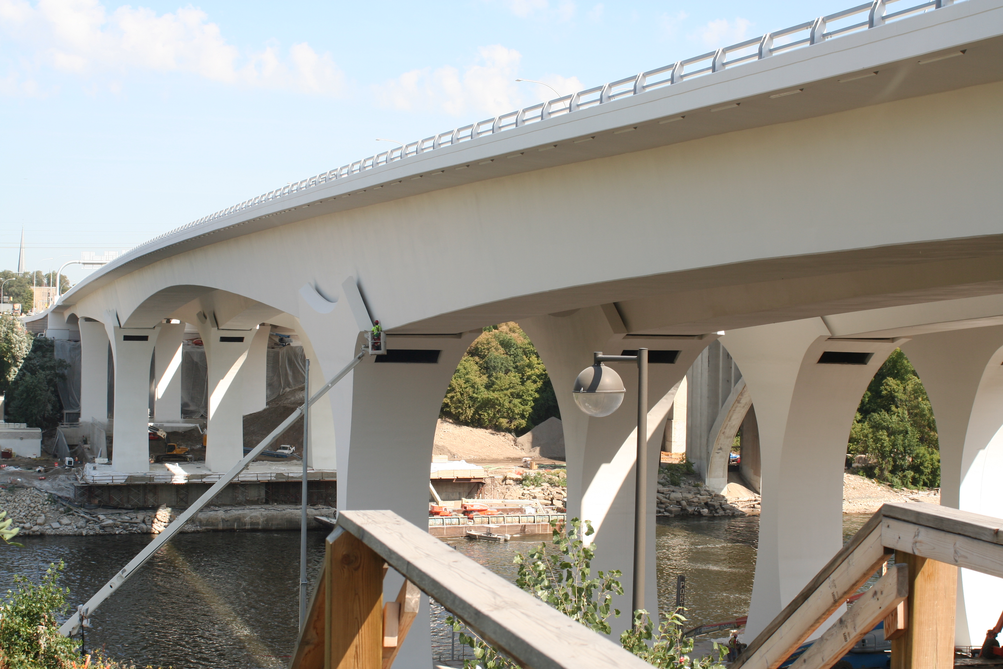 St. Anthony Falls (35W) Bridge opening day, looking across river from downtown (south) side. Bridge had opened shortly after 5 AM. [Wooden railings in foreground are part of a walkway, not part of the bridge]